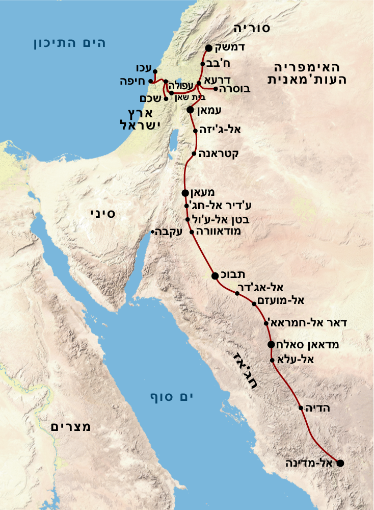 Overview Map of the Hejaz (Damascus-Mecca) railway of the late Ottoman period